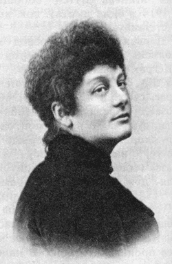 Russian writer Anastasia Verbitskaya